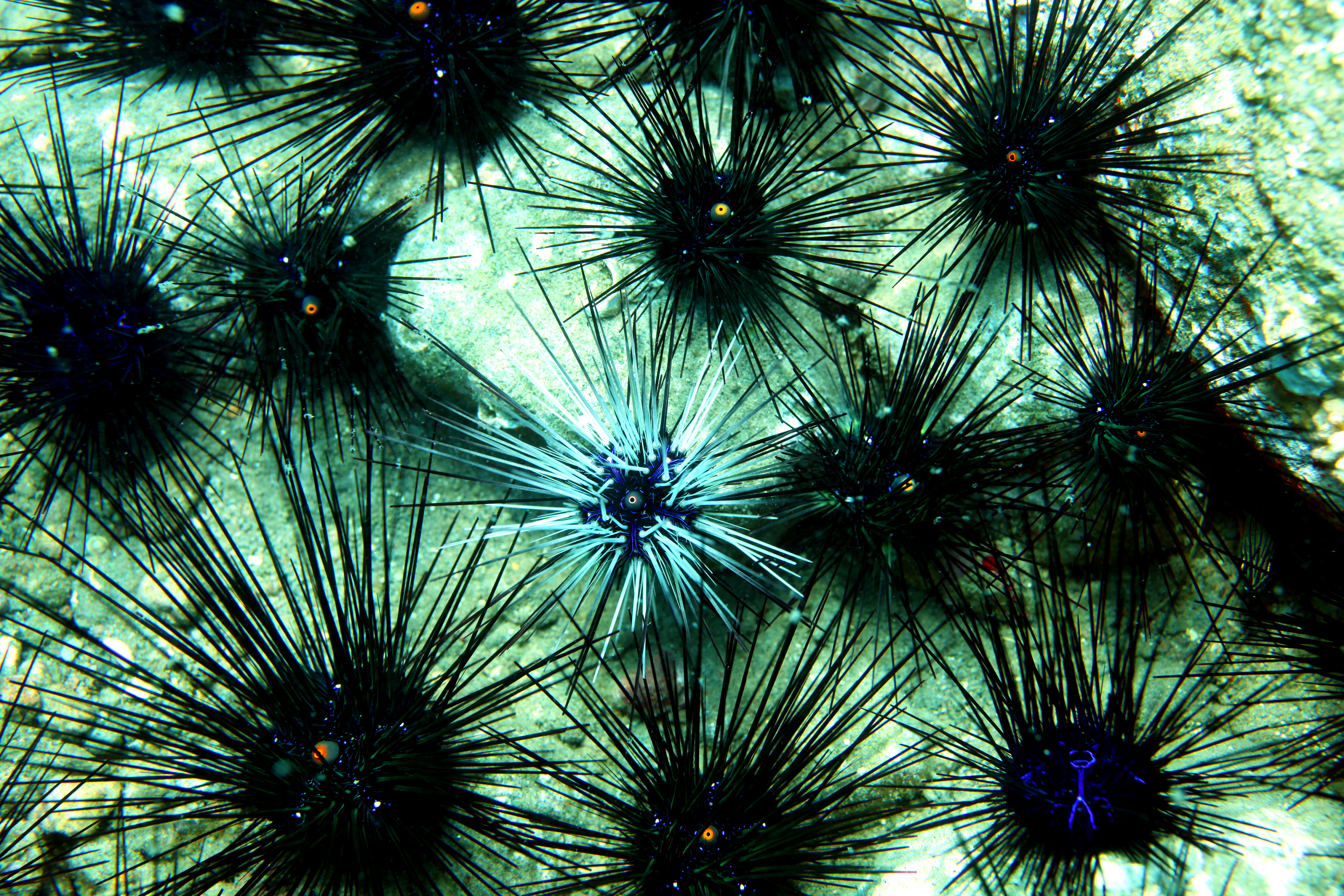 A bunch of diadem sea urchins : those with an orange circle are Diadema setosum, those with only blue patterns are Diadema savignyi.